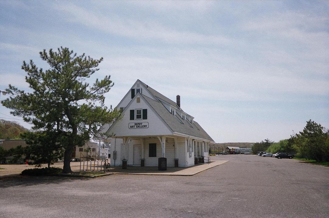 The former Montauk (LIRR station) house with the current station platform in the background. Currently the station house is known as the Depot Art Gallery. Note the bike rack.